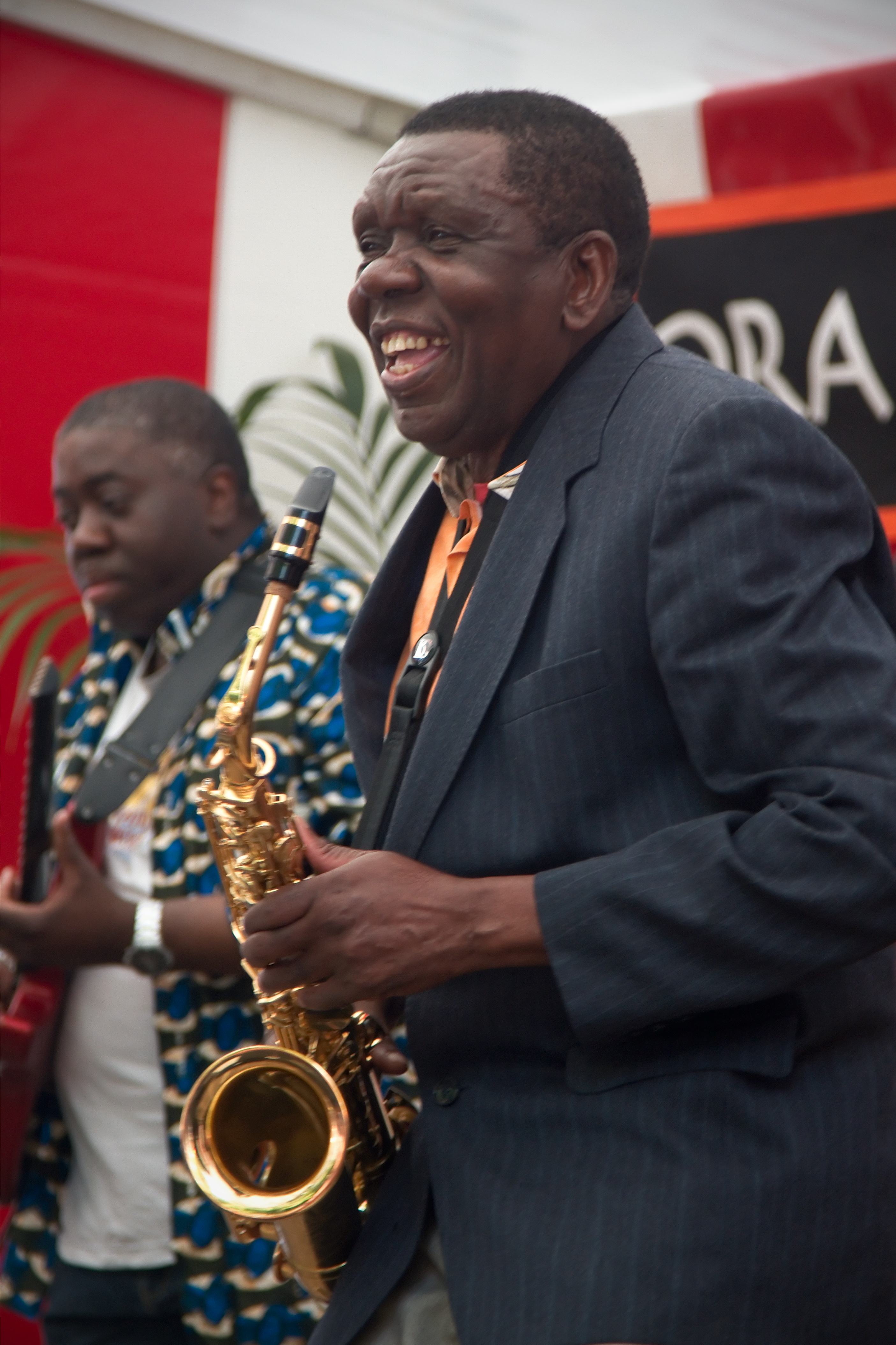 Saxophone player at the Koninginnedag in Delft